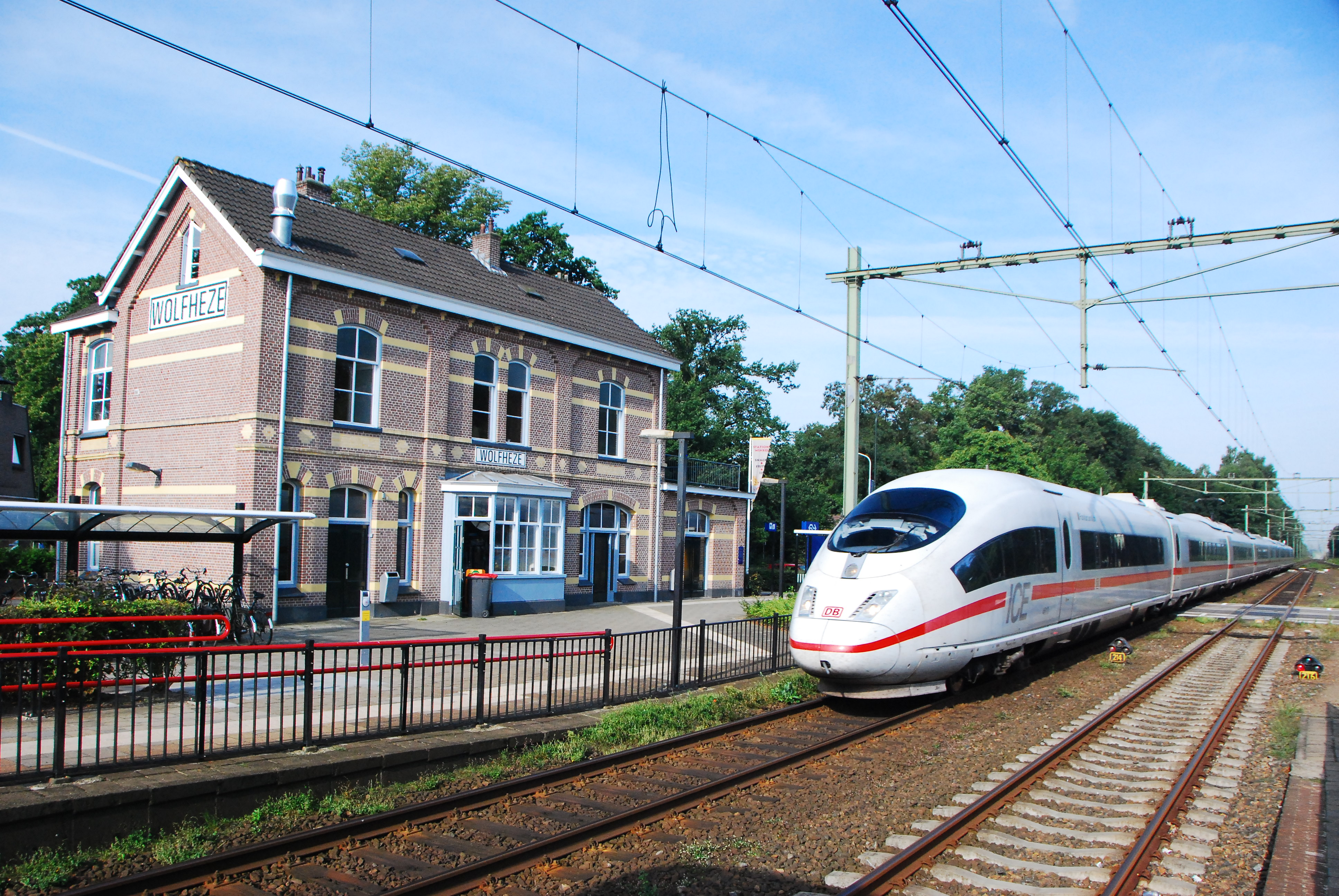 DB ICE with the high speed train to Germany from Amsterdam passes Wolfheze (NL)